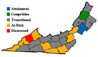 Map of "Appalachian Virginia," showing each county's Appalachian Regional Commission-designated economic status, using 2001-2003 data. The status indicates how the county compares to the national average on unemployment, income per capita, and poverty rate. Counties on par or ahead of the nation on these three indicators are designated "Attainment." Counties with unemployment and poverty rate equal or lower than the national average and an income per capita at least 80% of the national average are designated "Competitive." Counties lagging on just one of the three indicators are designated "Transitional." Counties lagging on two of the three indicators are considered "At-Risk." Counties lagging significantly on at least two indicators are considered "Distressed."